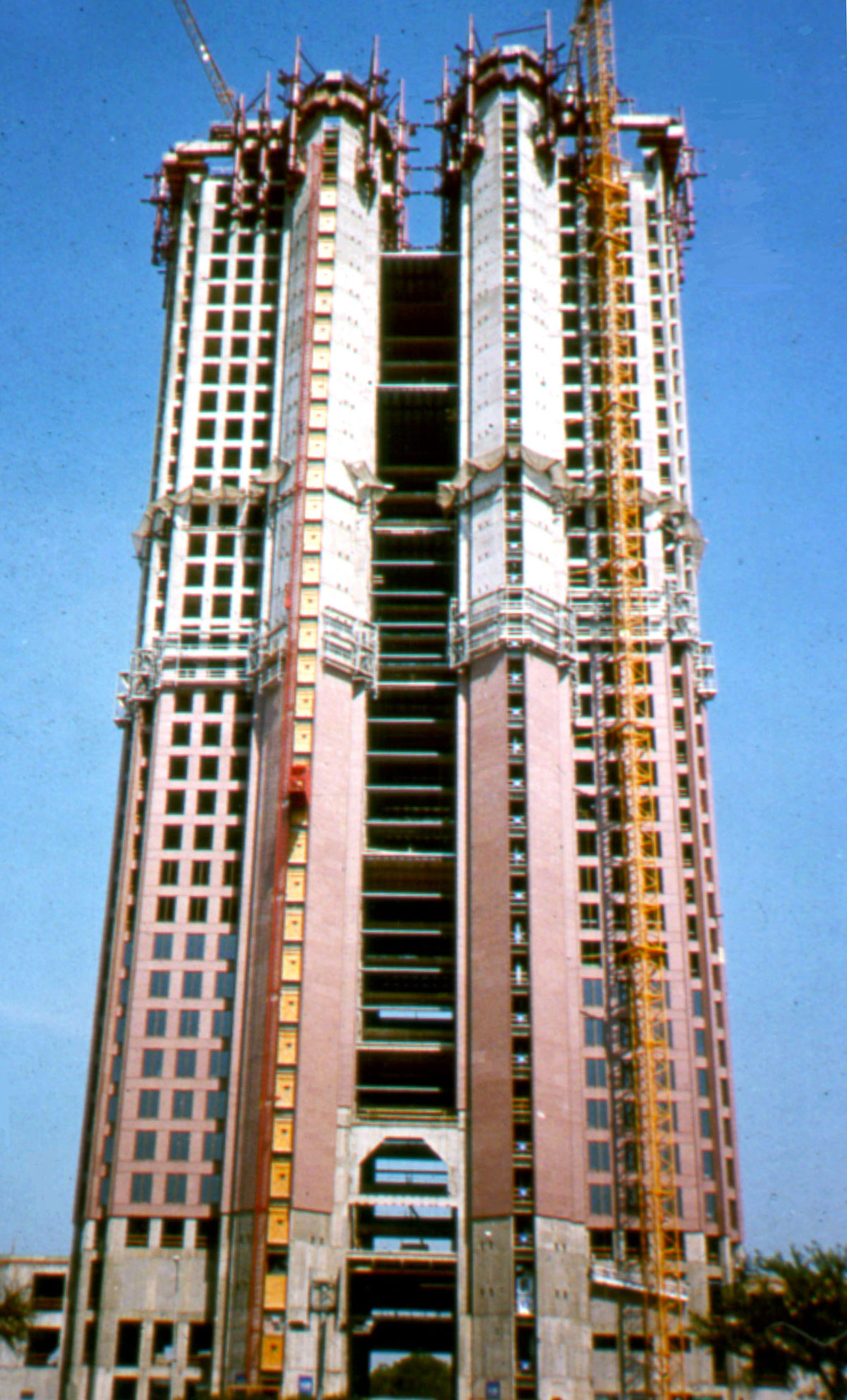 Cityplace under construction in 1988. It remains Dallas' biggest real estate bust.